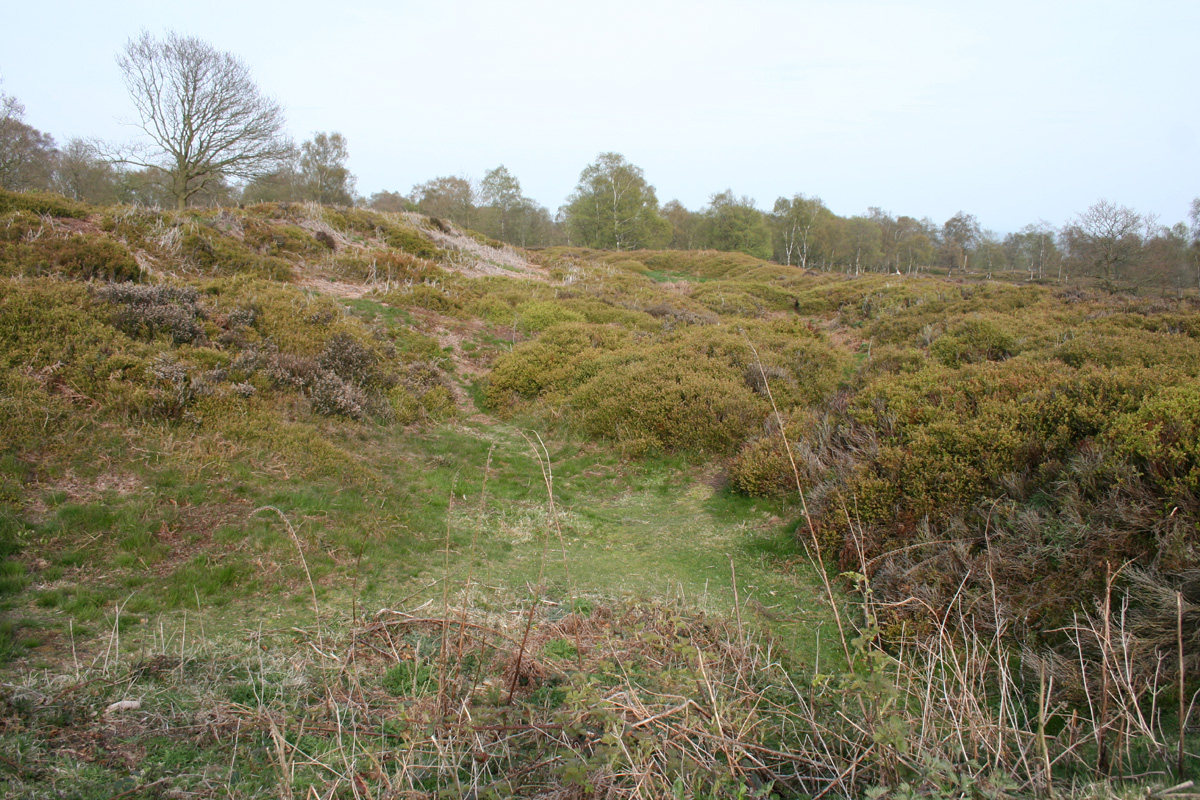 View between the two sets of ramparts of Maiden Castle, Bickerton Hill, Cheshire (SJ 497 528)